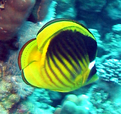 Chaetodon fasciatustaba 2007 red sea raccoon butterflyfish